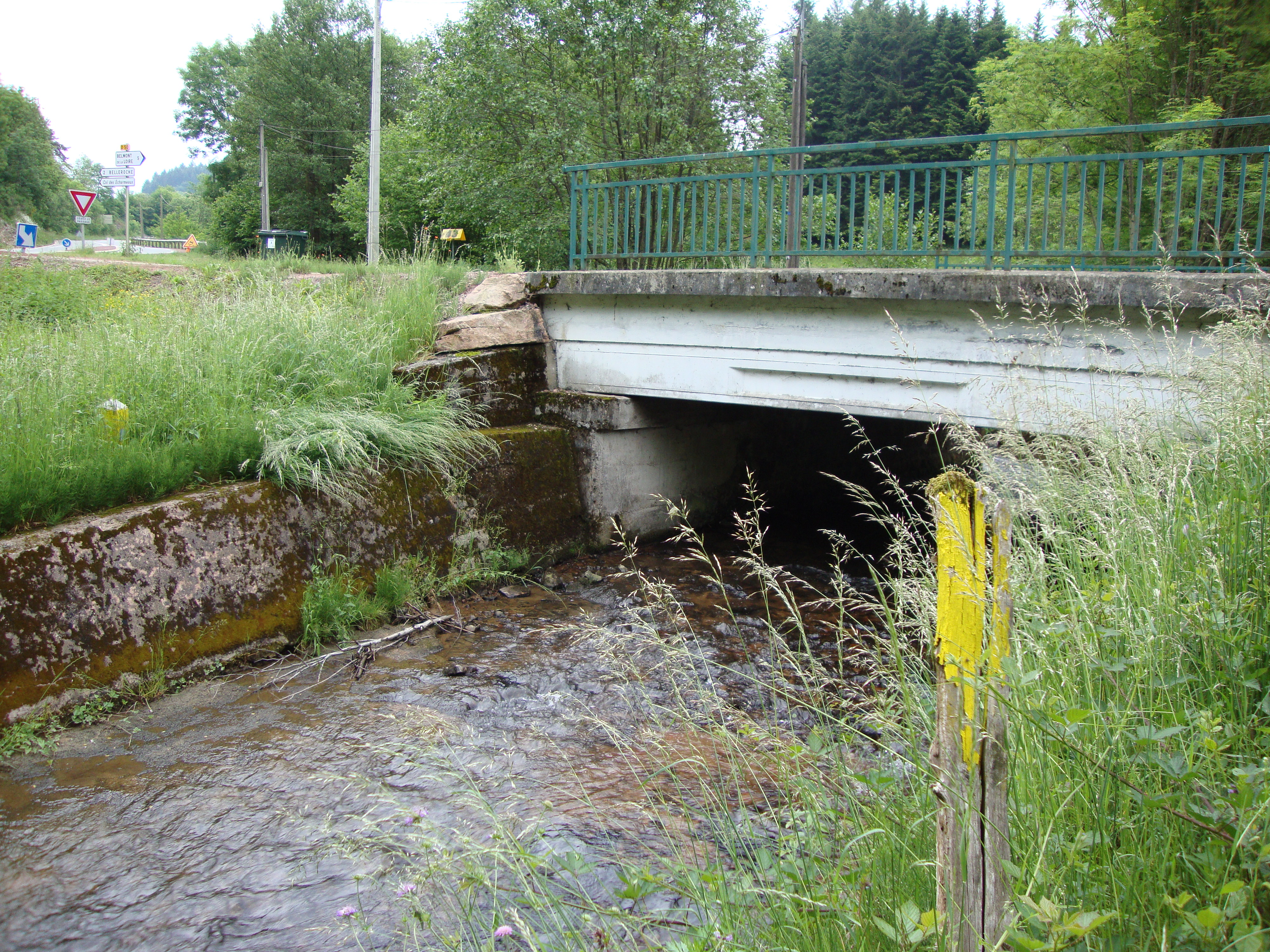 Belleroche (Loire, Fr) Botord (river)